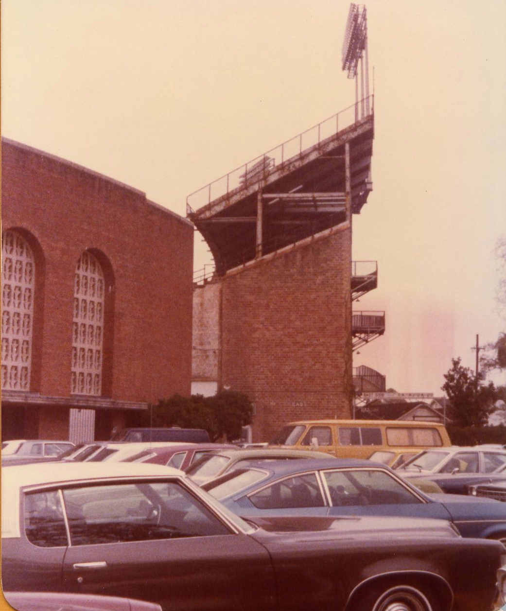 New Orleans: Tulane Stadium front parking. Photo by Infrogmation, c. 1978 - 1979